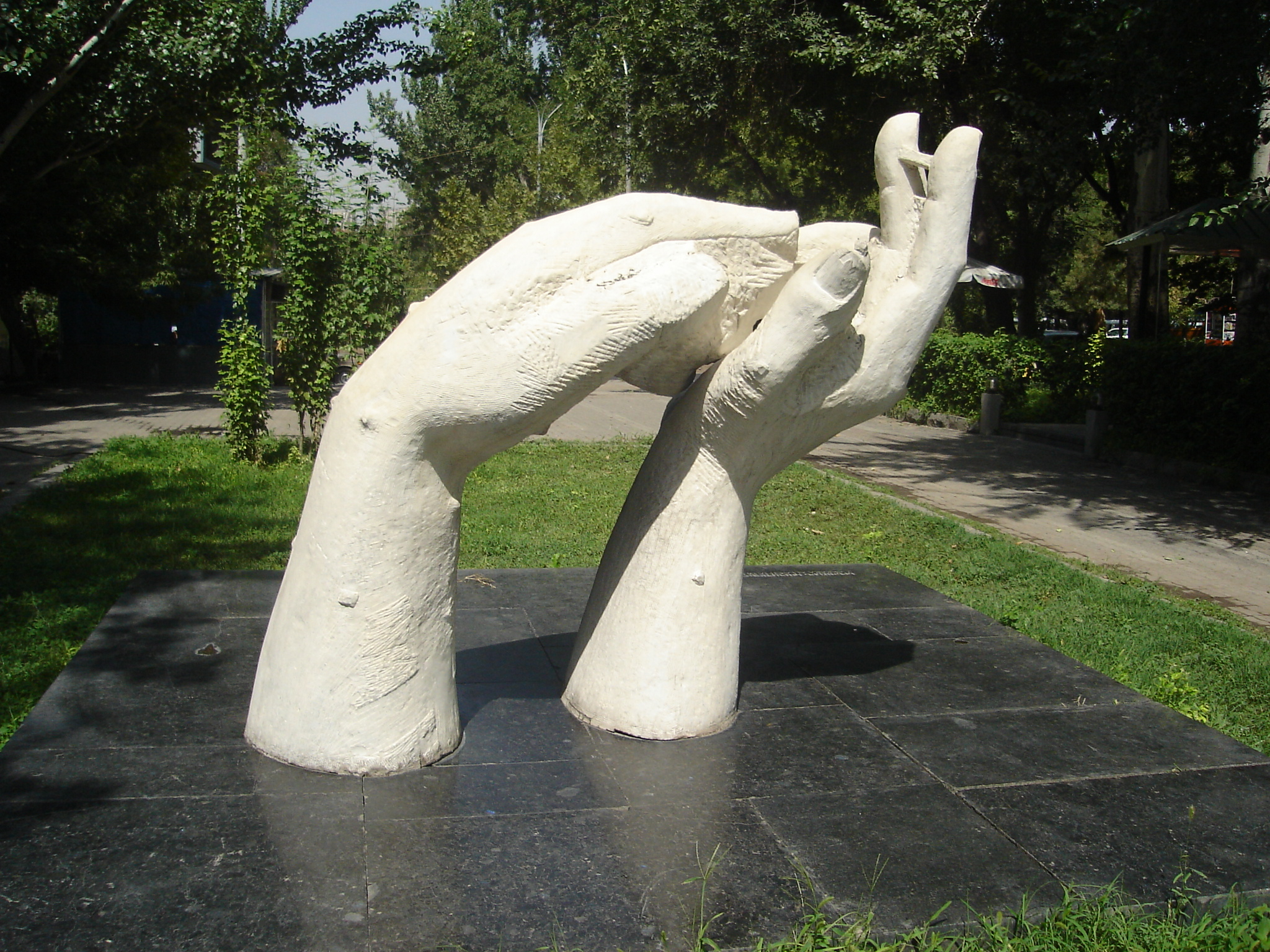 Hands of Amity, 1967 6/114